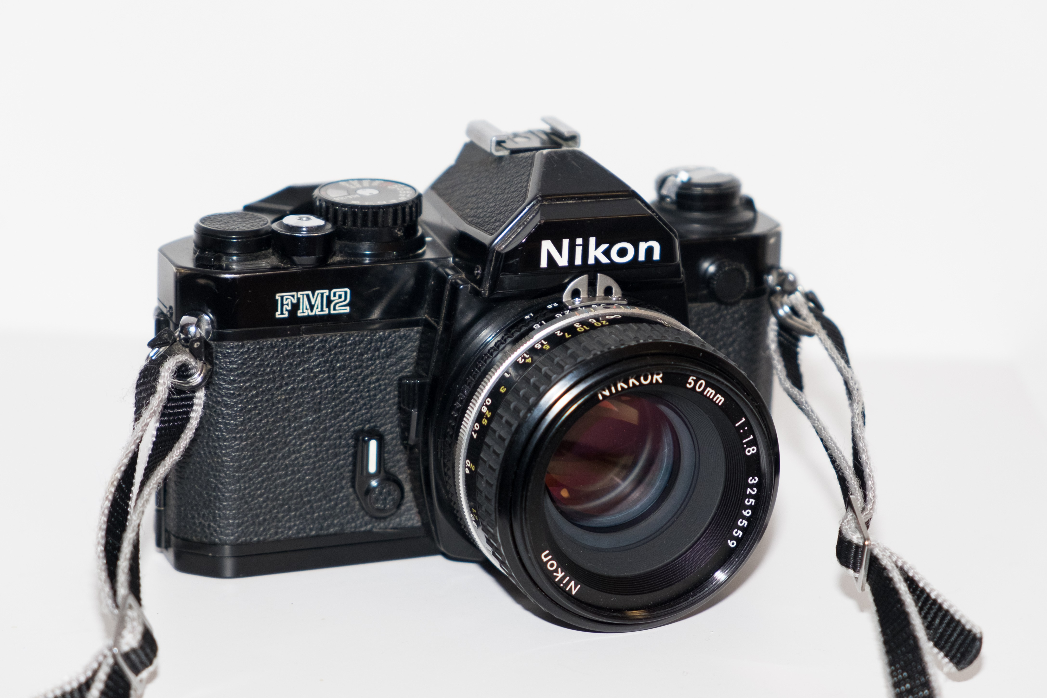 Nikon FM2 in black finish, with nikkor 50mm 1.4 AI